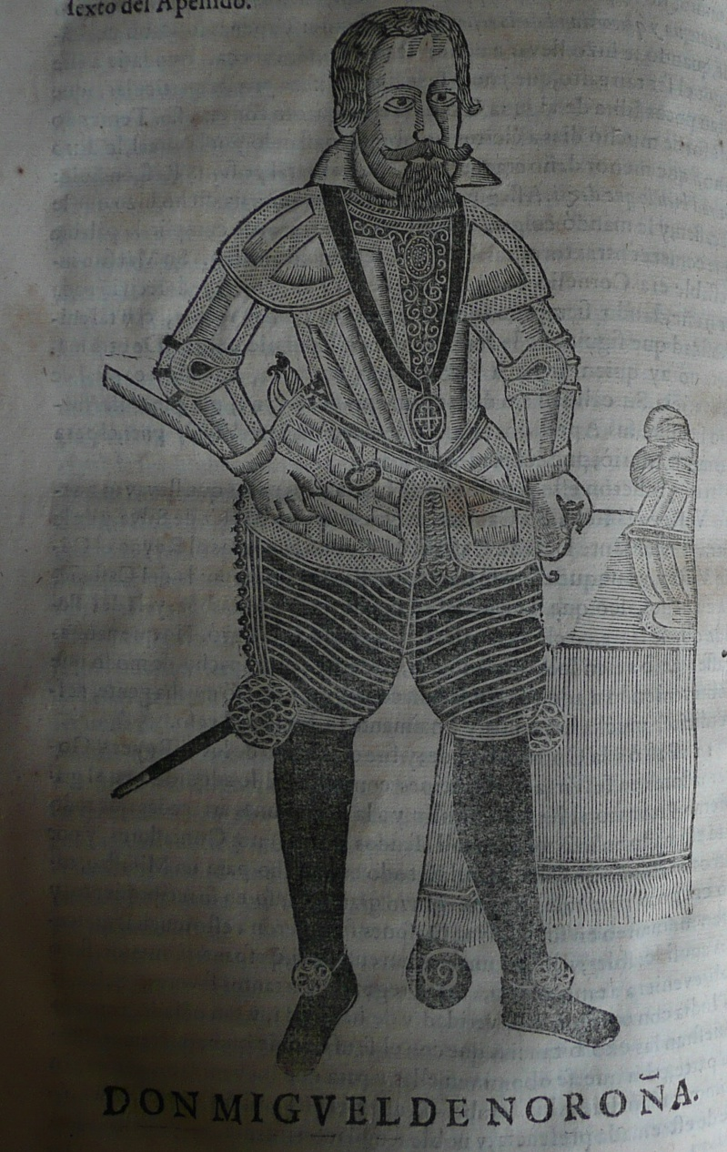 portrait of D. Miguel de Noronha, governor of Portuguese Índia